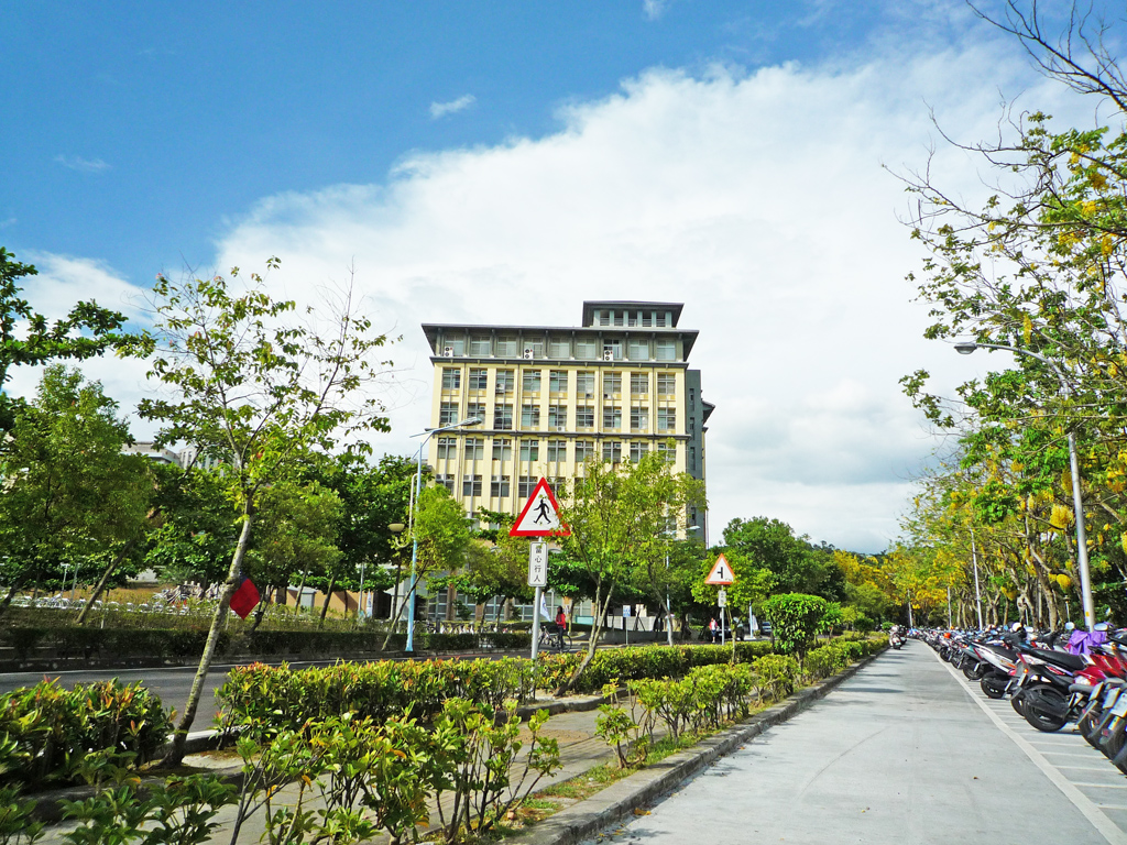 The libary of National Chiayi University is located in Lantan , Chiayi, Taiwan.